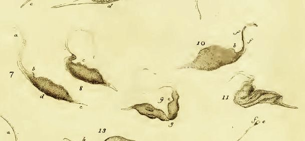 Images of Vibrio anser (synonym of Dileptus anser), from Muller`s Animalcula Infusoria (1786)